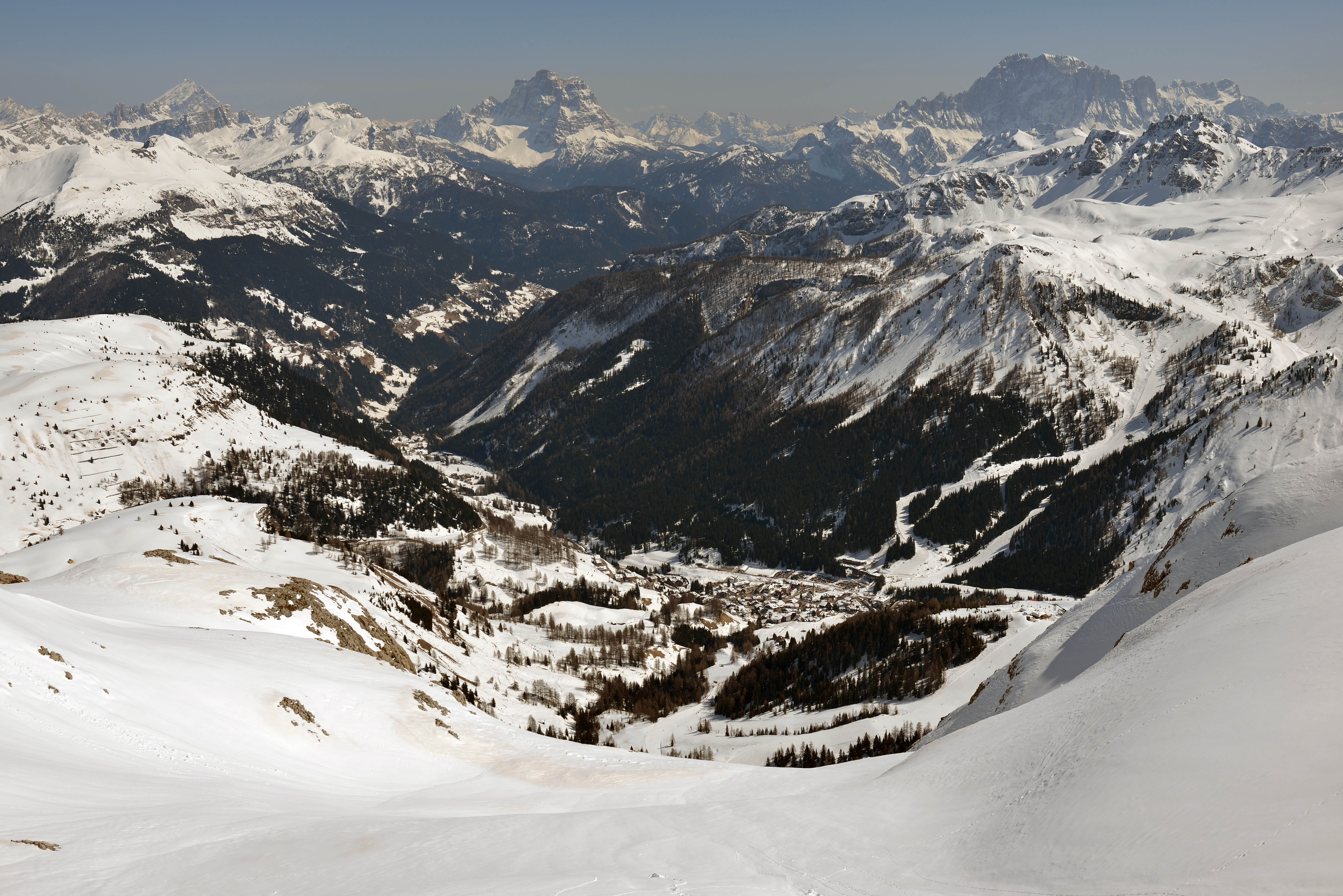 Arabba from the Sella Group, South Tyrol